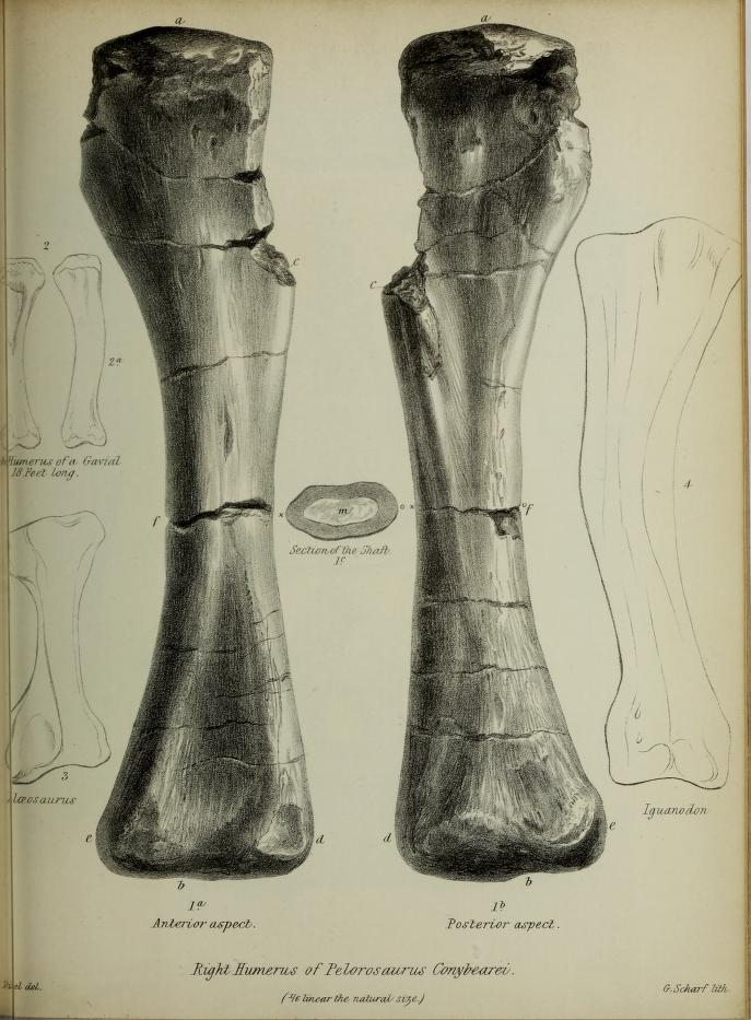 Pelorosaurus conybeari humerus illustrated by Mantell (1850 plate 21)